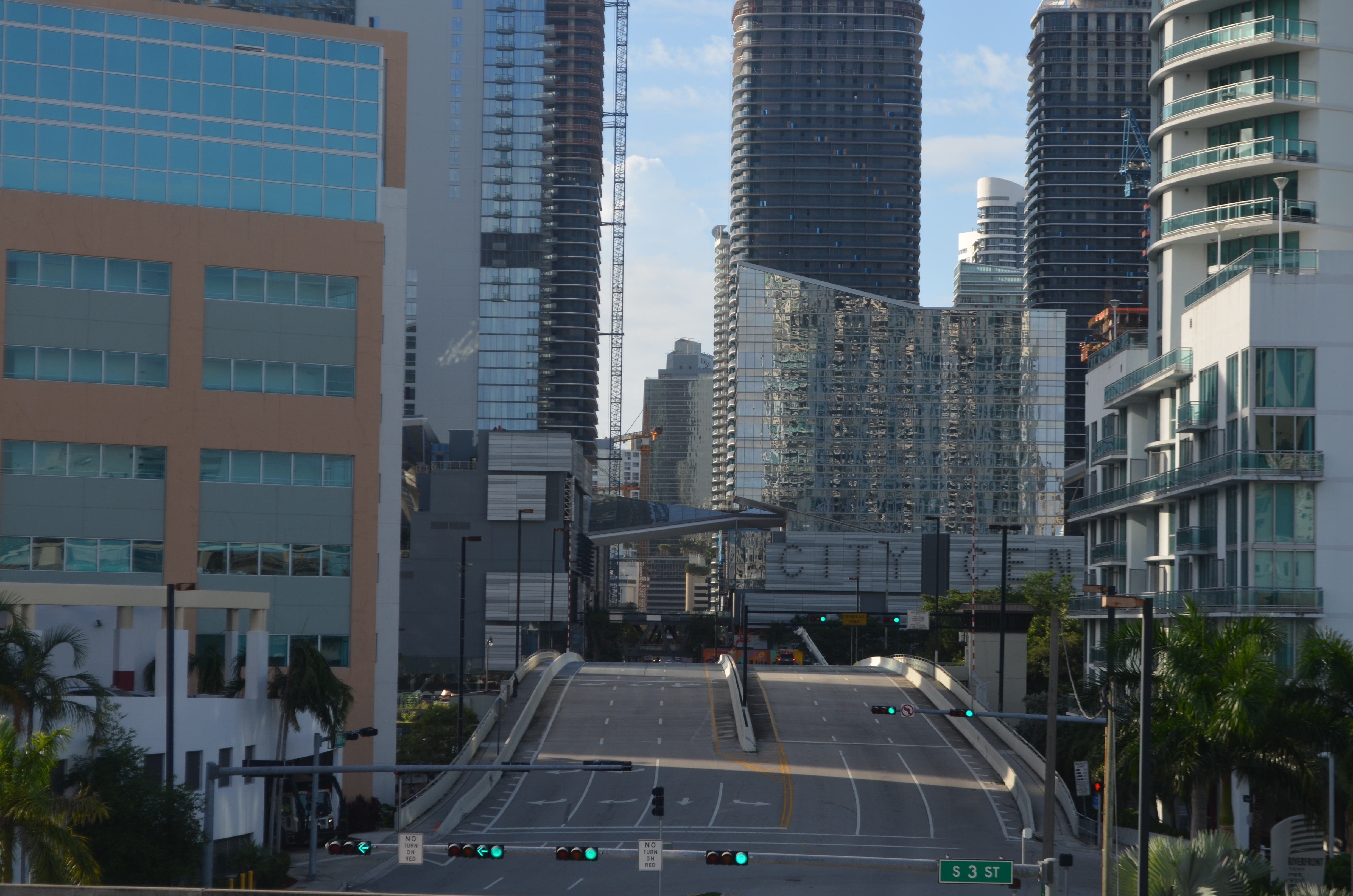 Looking down South Miami Avenue, in 2016, from the Third Street Metromover station.